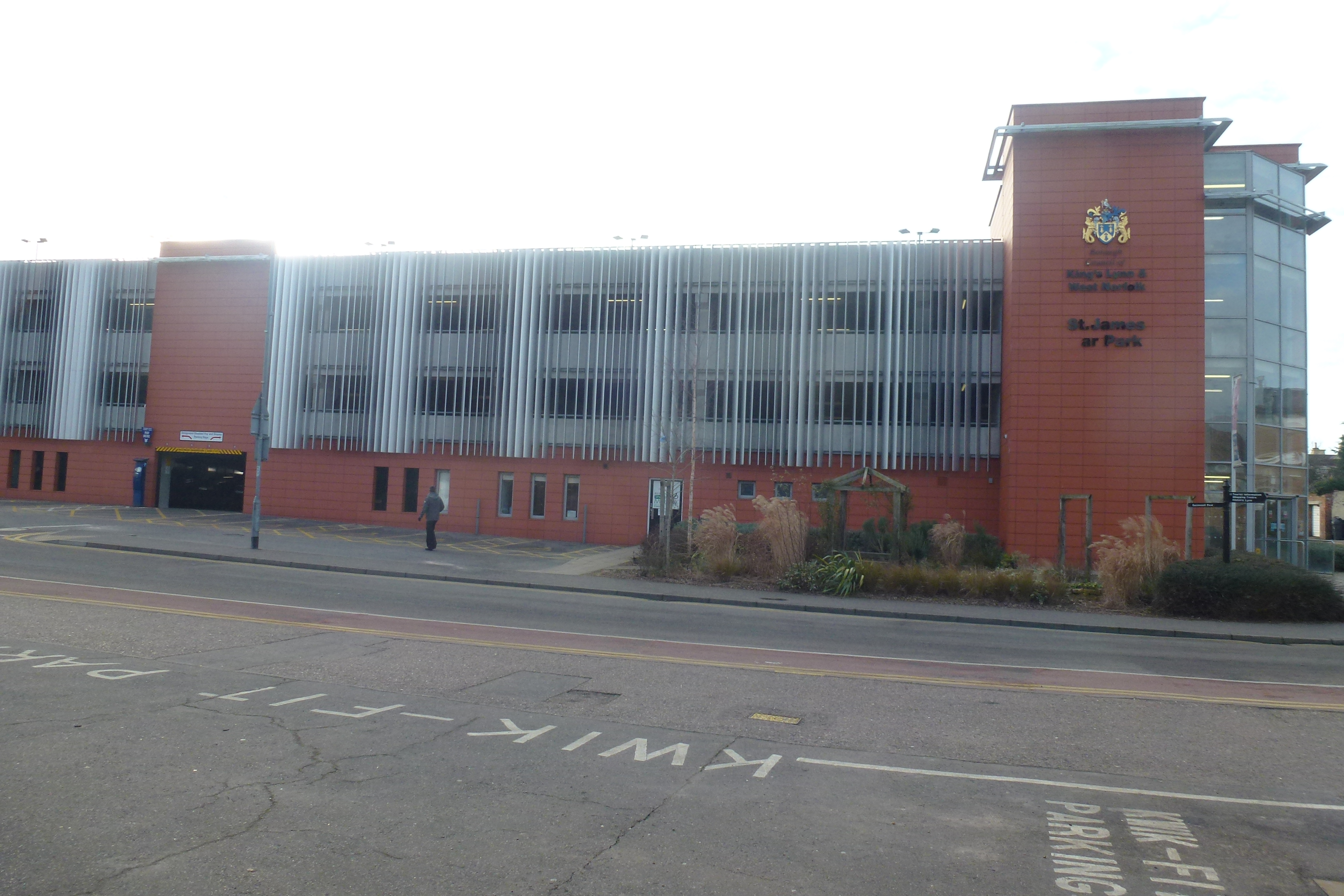 St James's car park, Kings Lynn town centre.